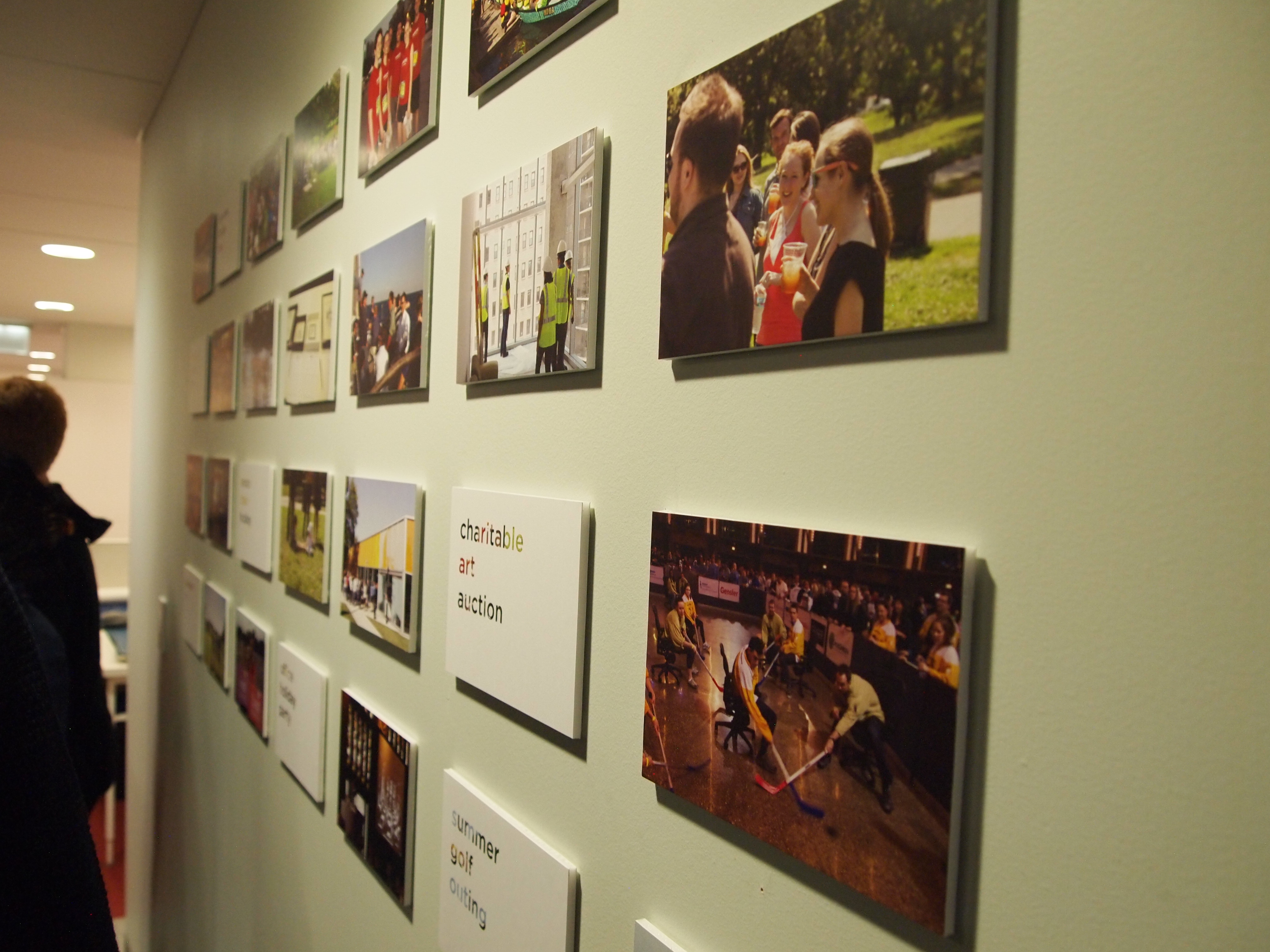 Foamcore photo wall.